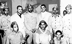 Heads of the Yemeni Coup of 1962.